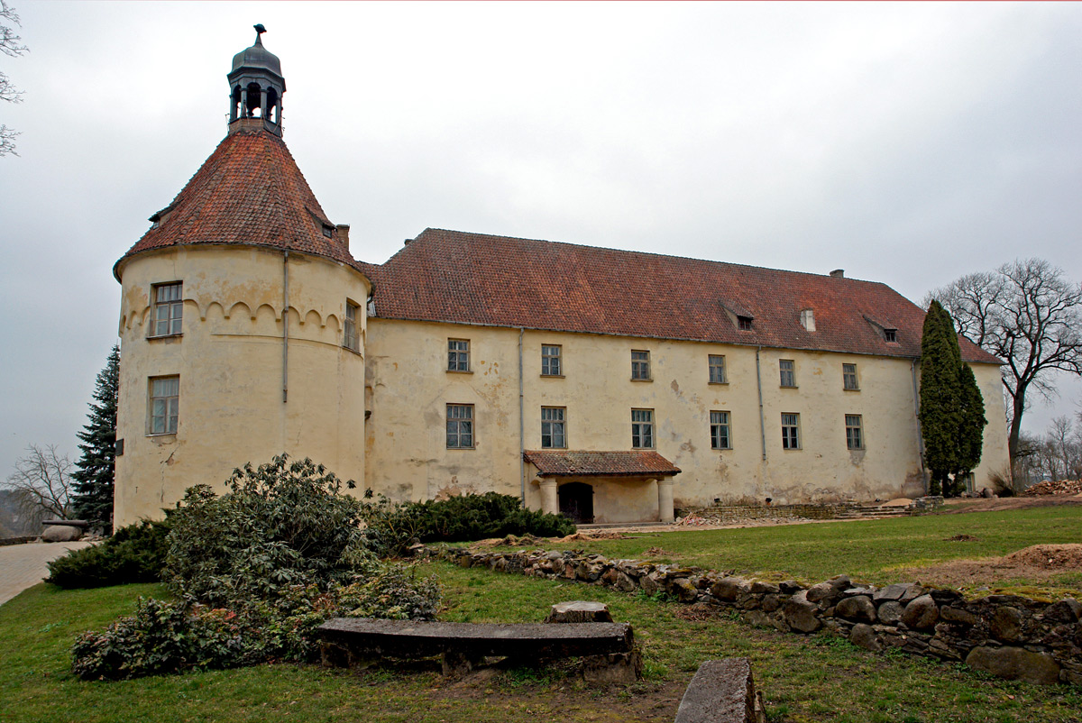 Jaunpils medieval castle